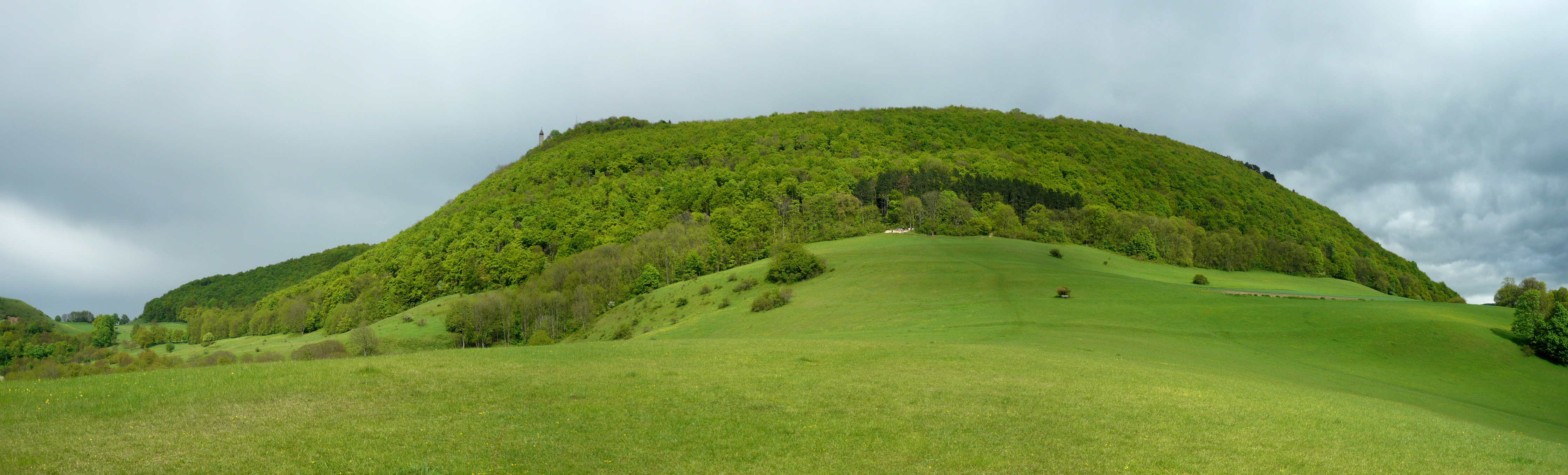 Teckberg, view from West side